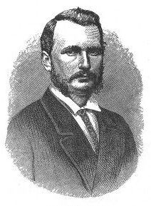 Alexander Forrest - Project Gutenberg eBook 9958 Title Explorations in Australia, Illustrated, EText-No. 9958